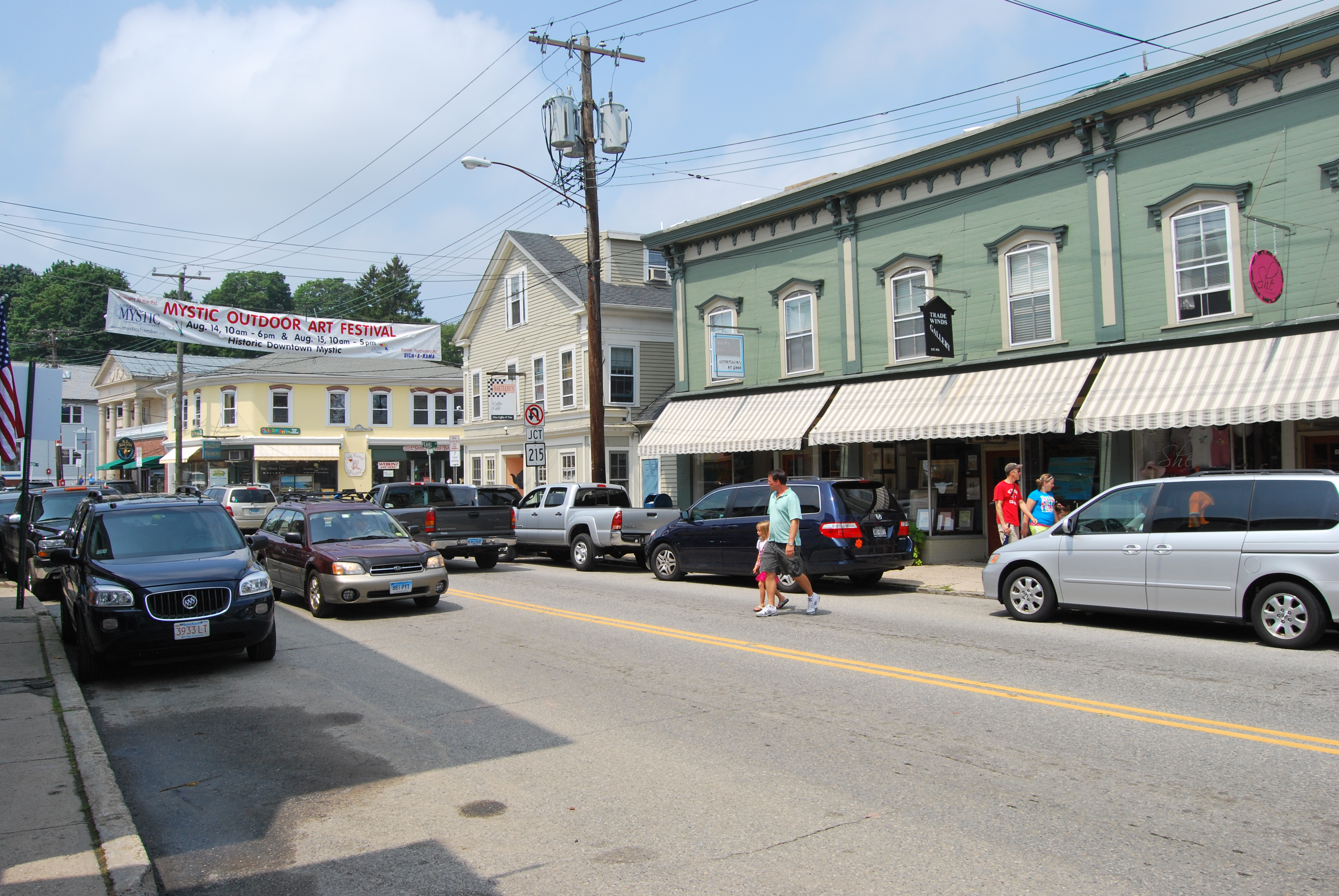 U.S. Route 1 in downtown Mystic, Connecticut.